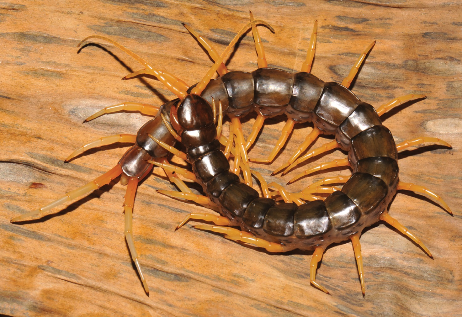 Image of Scolopendra cataracta, a centipede recognised as a separate species in 2016